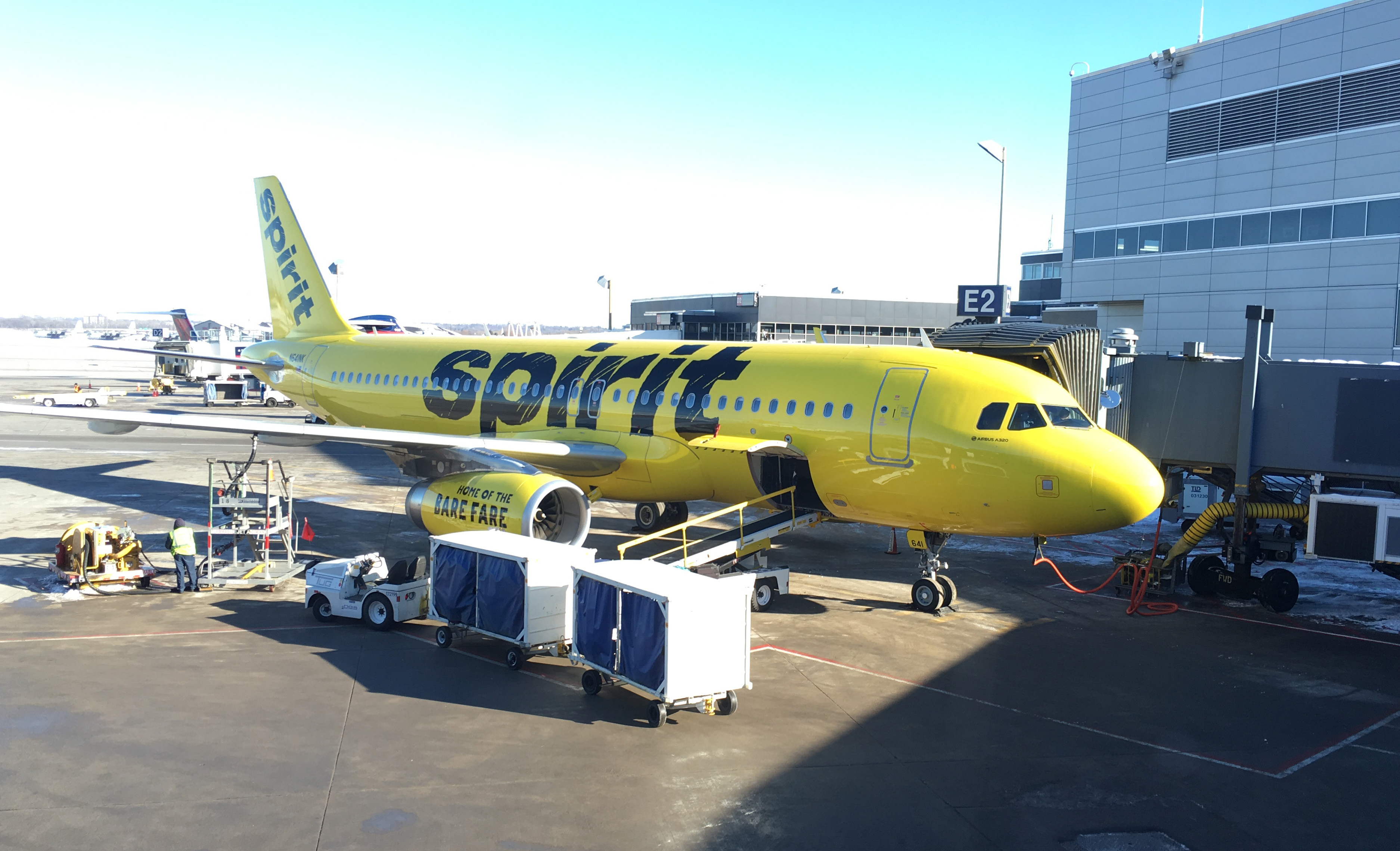 Spirit Airbus A320 N641NK at Minneapolis–Saint Paul International Airport gate E2 prior to boarding at 11:30am on January 2, 2016